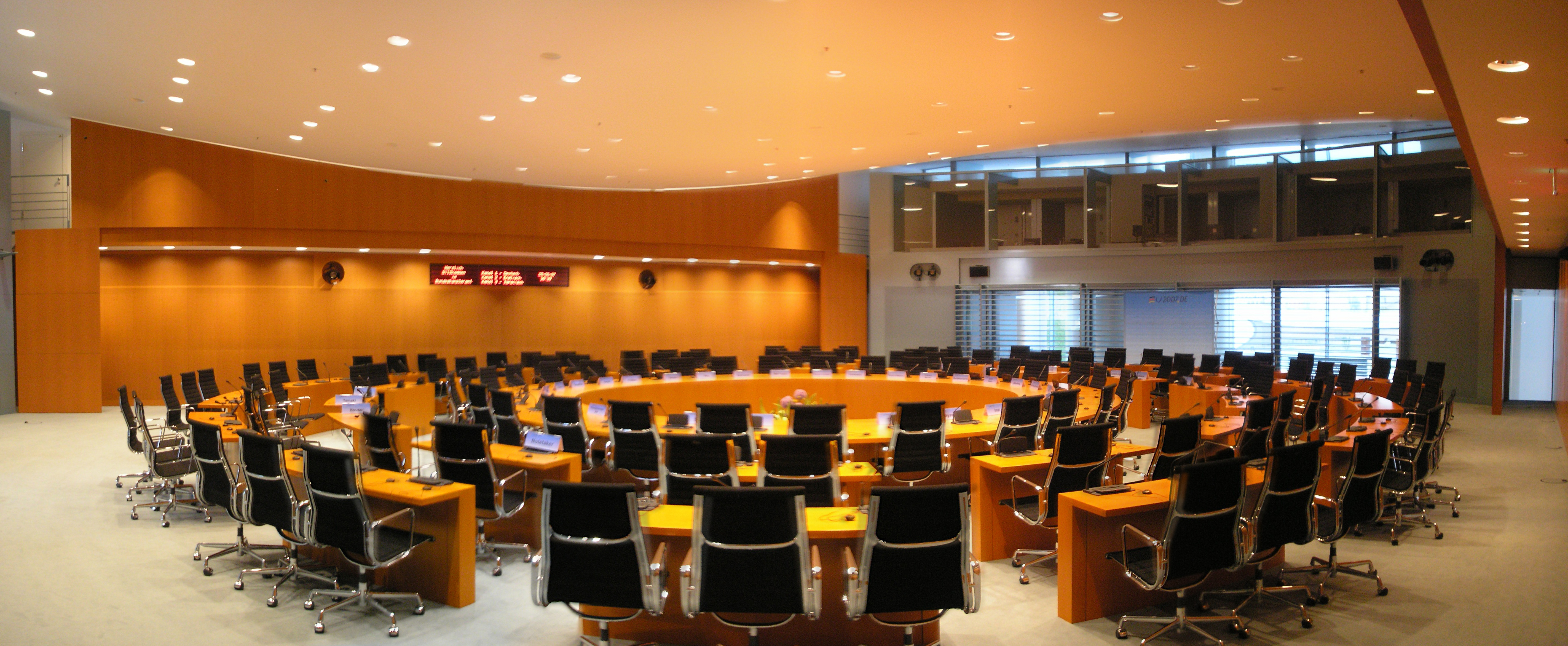 Internationaler Konferenzsaal inside the Federal Chancellery building in Berlin, Germany.